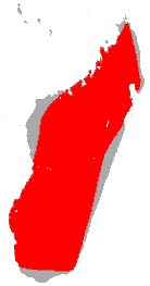 Commerson's Roundleaf Bat (Hipposideros commersoni) range